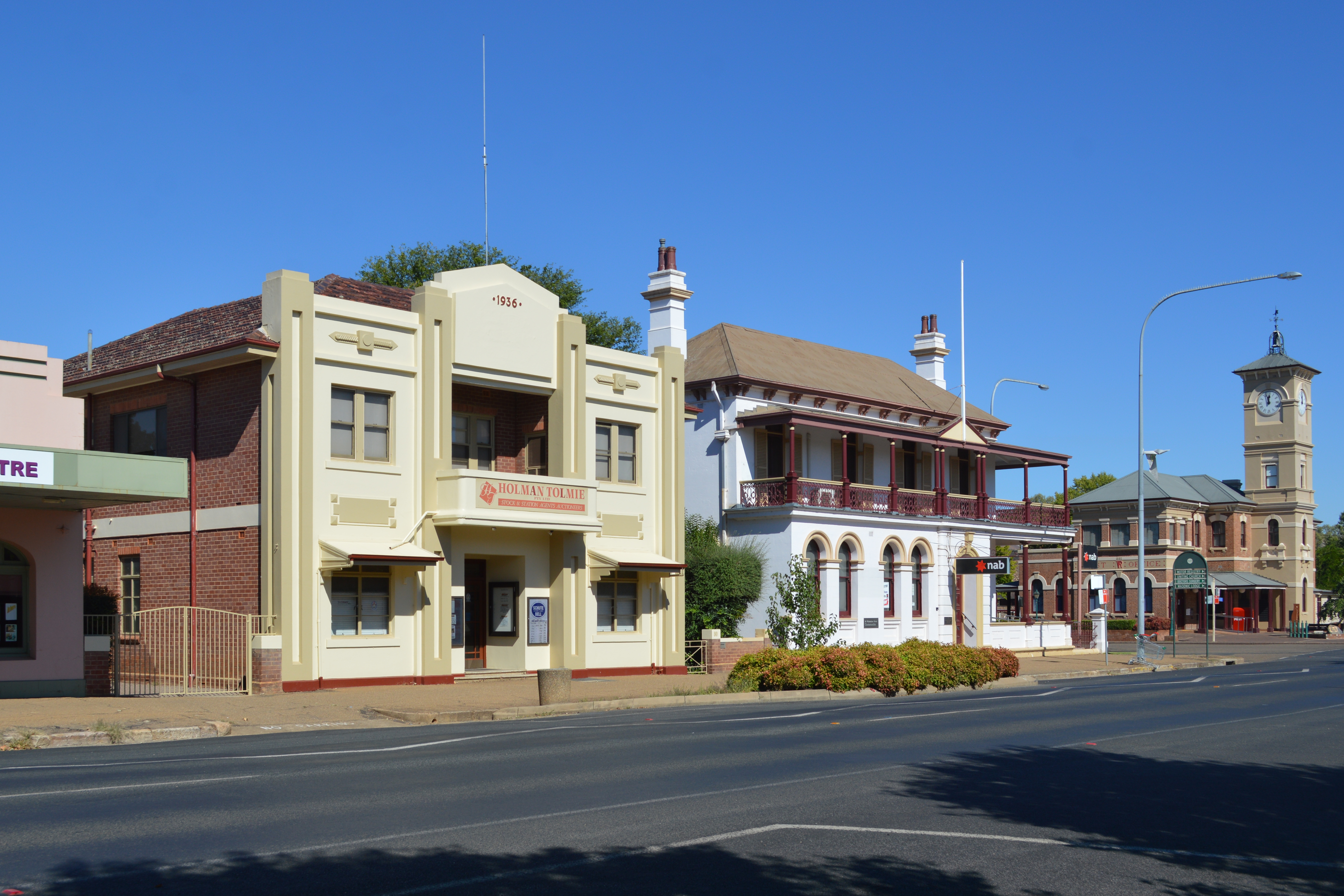 A building in Wallendoon St, Cootamundra, New South Wales. In the background is the National Australia Bank and the post office